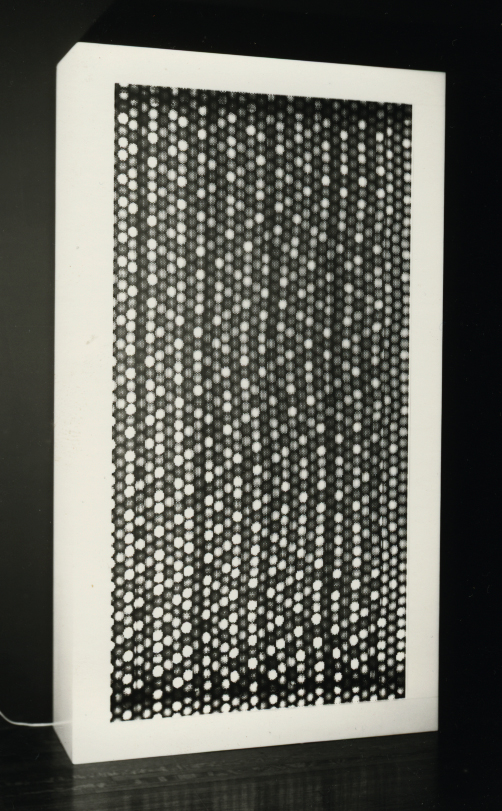 Sarigan. 103'x58'x18'. Construction with perforated metal and florescent light